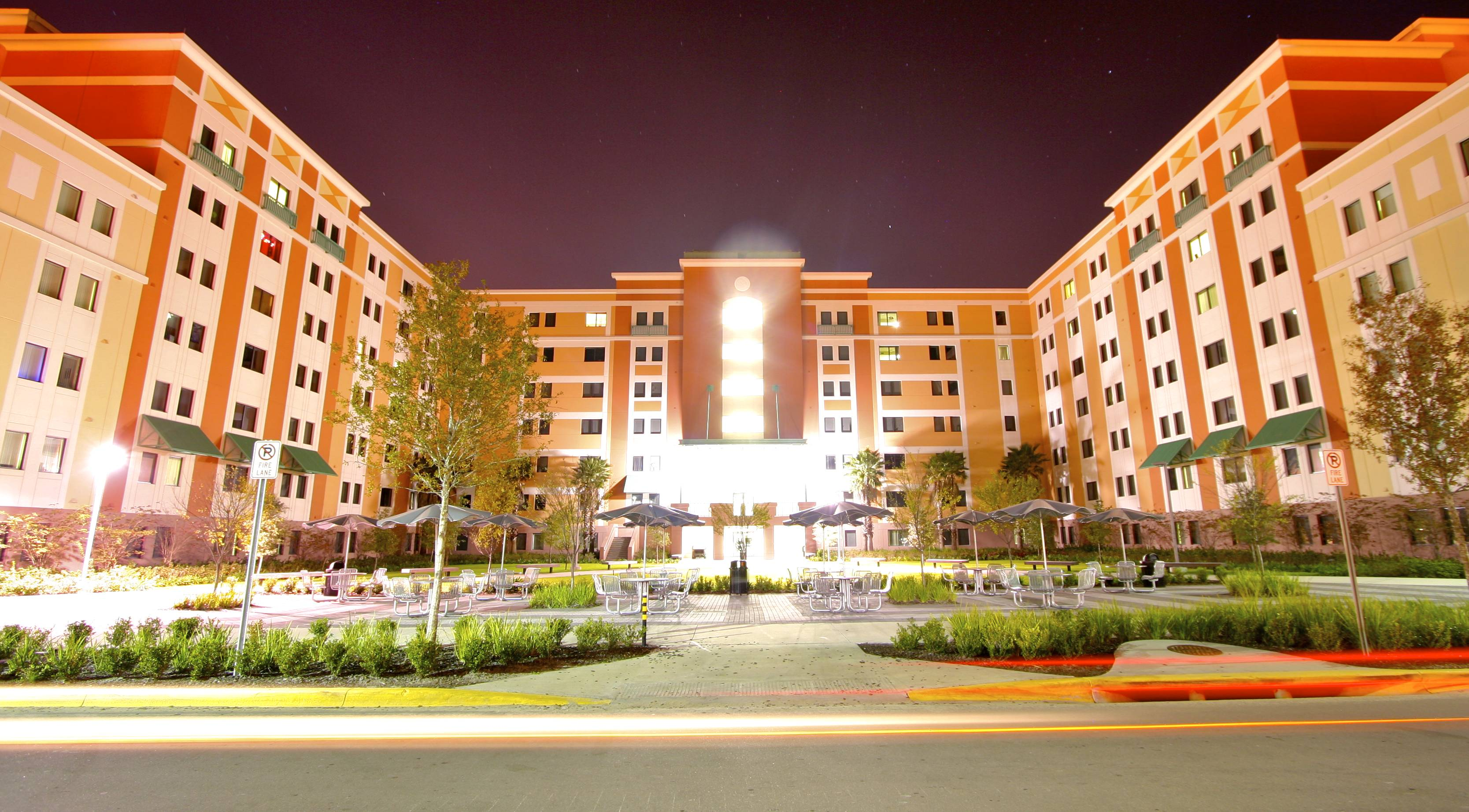 My Dorm @ UCF (University of Central Florida)